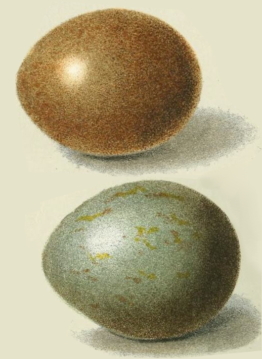 Eggs of Sypheotides indicus